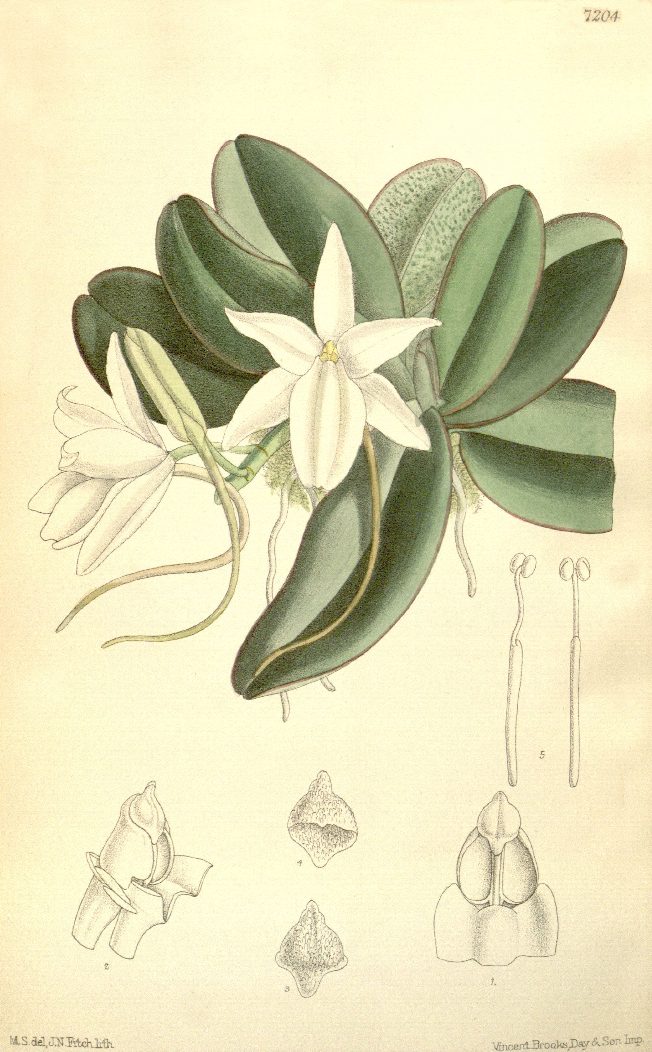 Illustration of Aerangis fastuosa (as syn. Angraecum fastuosum)